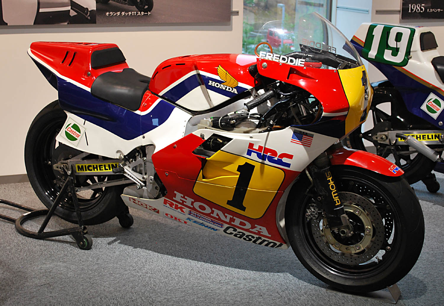 Honda NSR500 (Freddie Spencer, 1984)